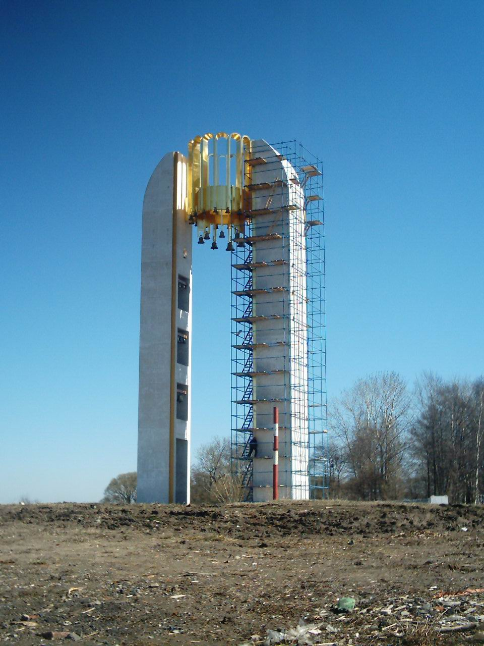 Building of carillon in Primorsky park of Victory in Saint Petersburg